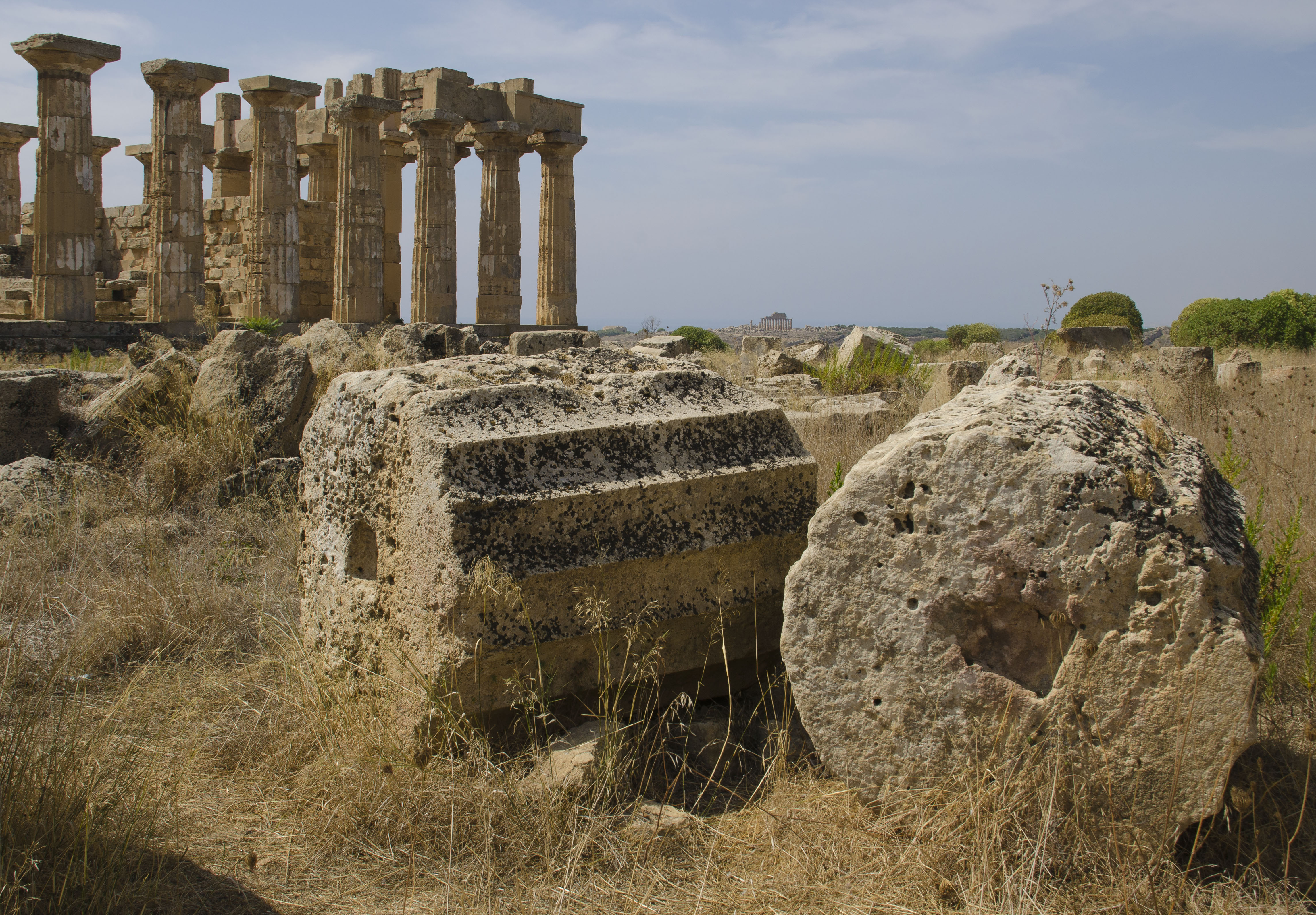 Selinunte, Sicily. Remains of temple F (foreground), temple E (left), temple C (background).